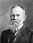 Photograph of F.W. Reitz, State Secretary of the South African Republic at the signing of the Peace of Vereeniging, Pretoria 31 May 1902